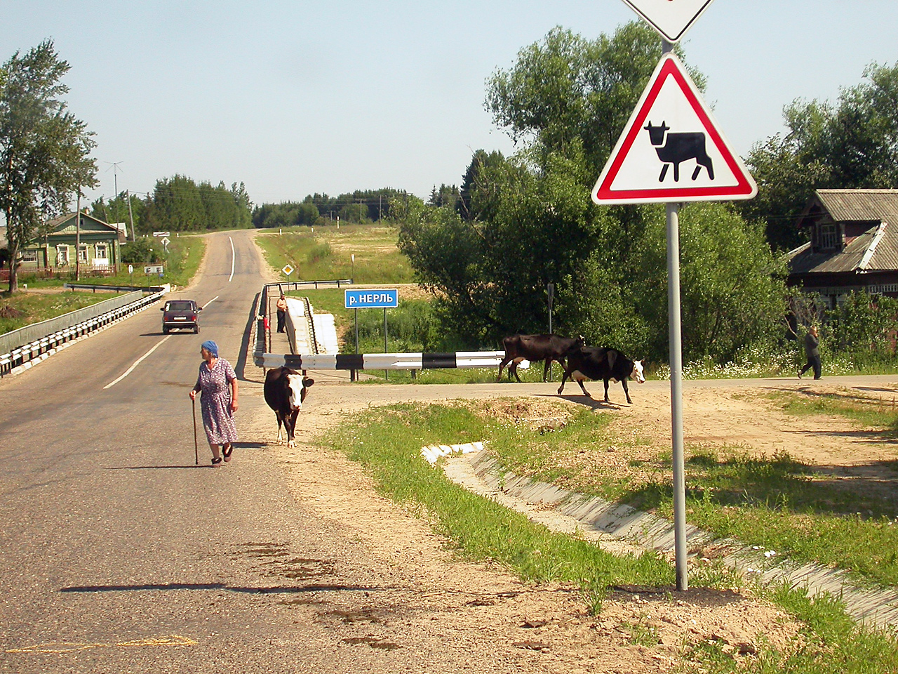 Nerl_river_ in Andrianovo Village